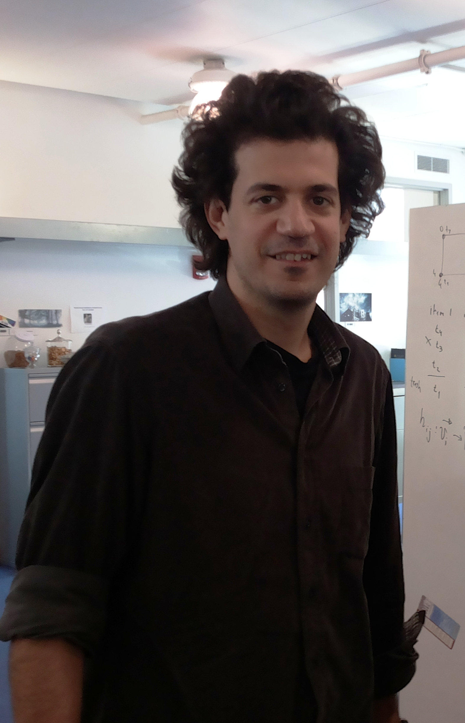 Dr. Constantinos Daskalakis, Associate Professor at MIT's Electrical Engineering and Computer Science department, outside his office at MIT's Stata Center in Boston, Massachusetts, USA.